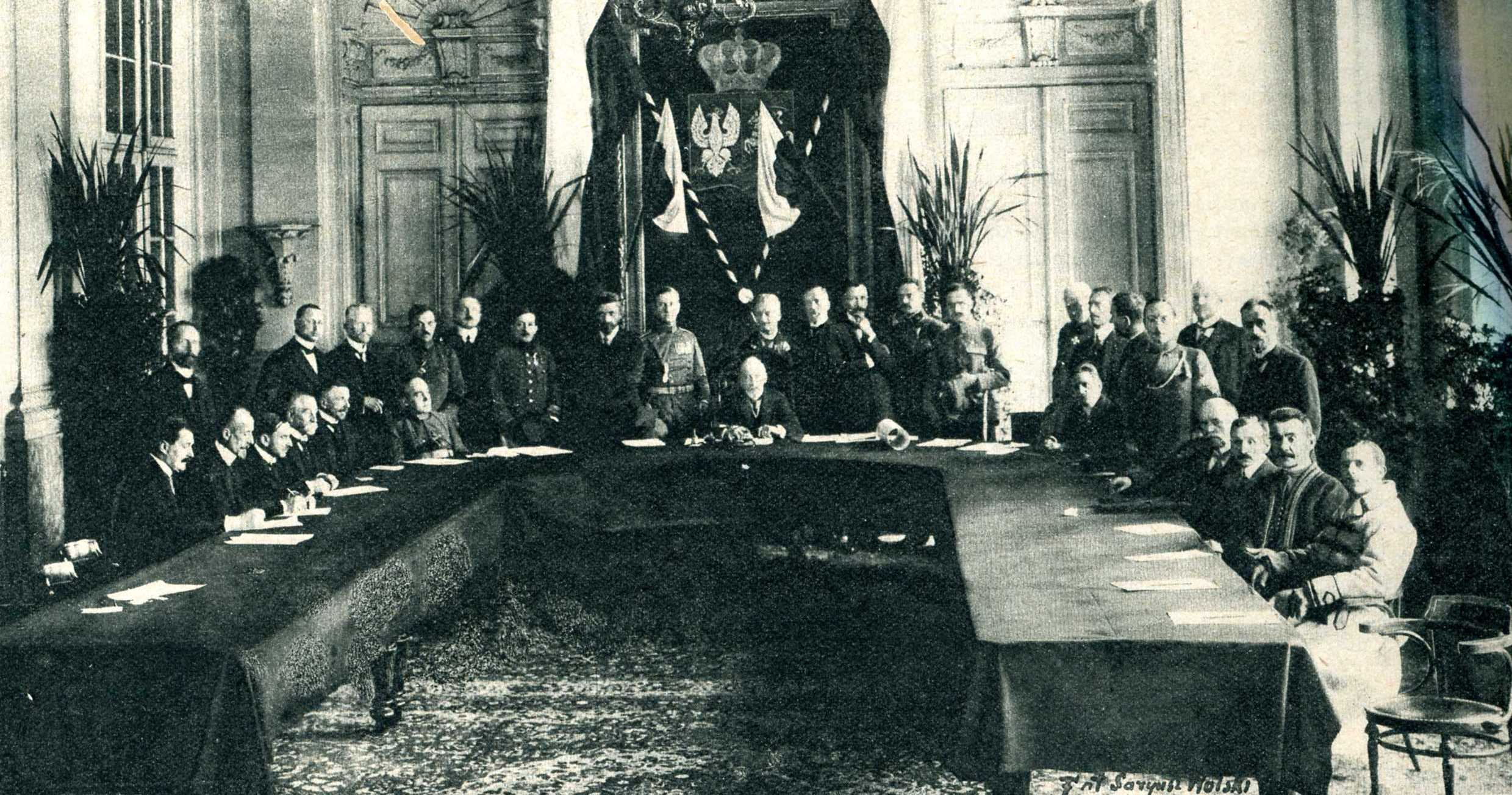 Provisional Council of State, substitute of Polish parliament 1917-1918